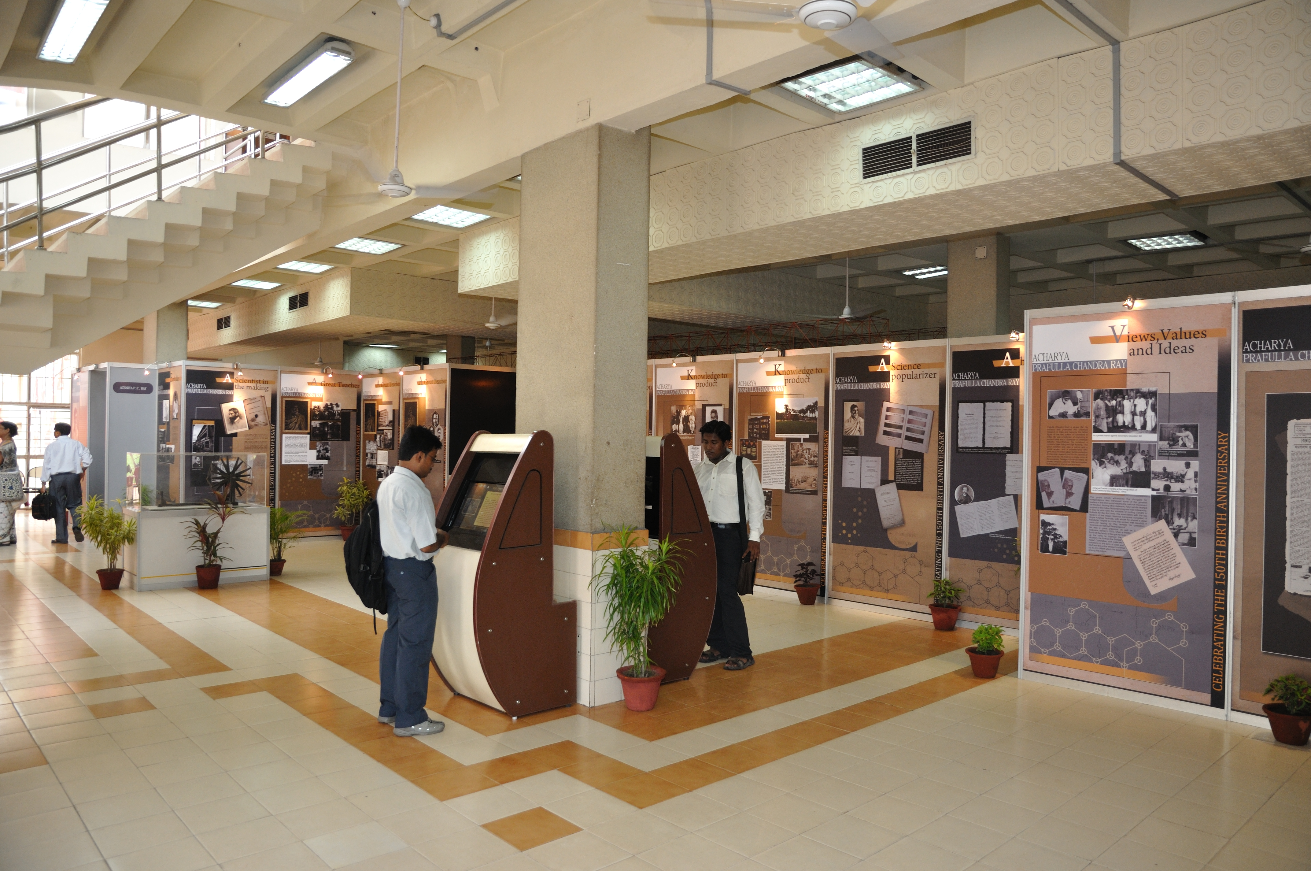 An exhibition on 'Acharya Prafulla Chandra Ray: Life & Science of A Legend' held at the Science City, Kolkata on his 150th birth anniversary.